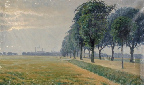 Nørre Allé surrounded by Nørrefælled and with Nørrebro in the distance outside Copenhagen, Denmark